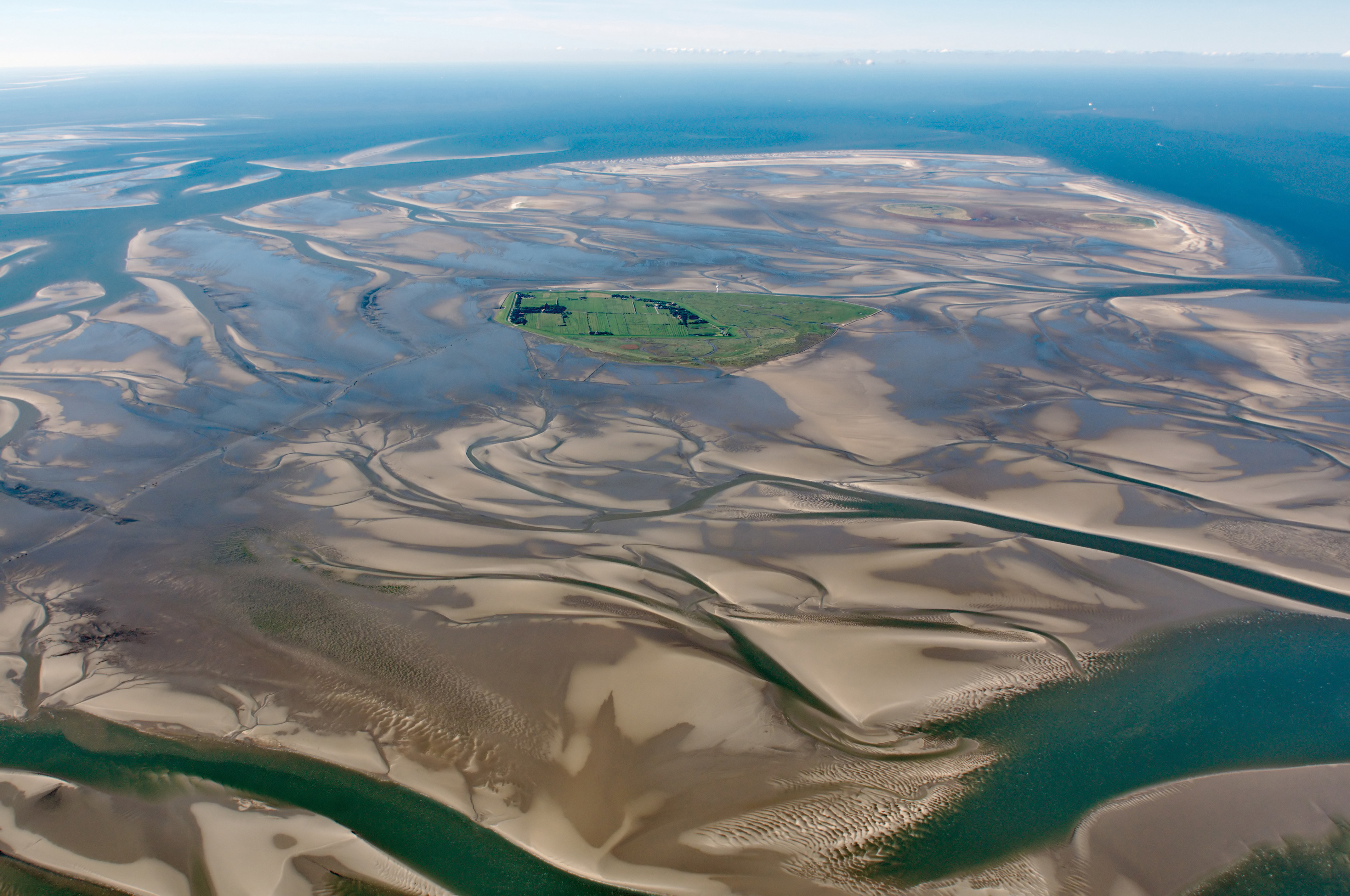 Island Neuwerk near Hamburg in the German Wadden Sea. View from ESE, from 1400 m height and 6 km distance.